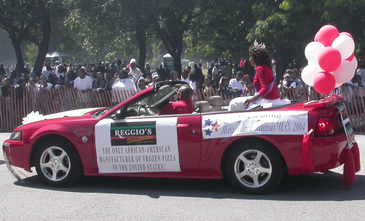 Bud Billiken Parade and Picnic Beauty Pageant winner car